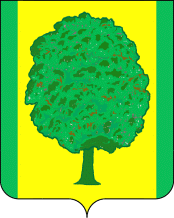 Coat of arms of Parkovovskoye municipality, Krasnodar Kray, Russia.